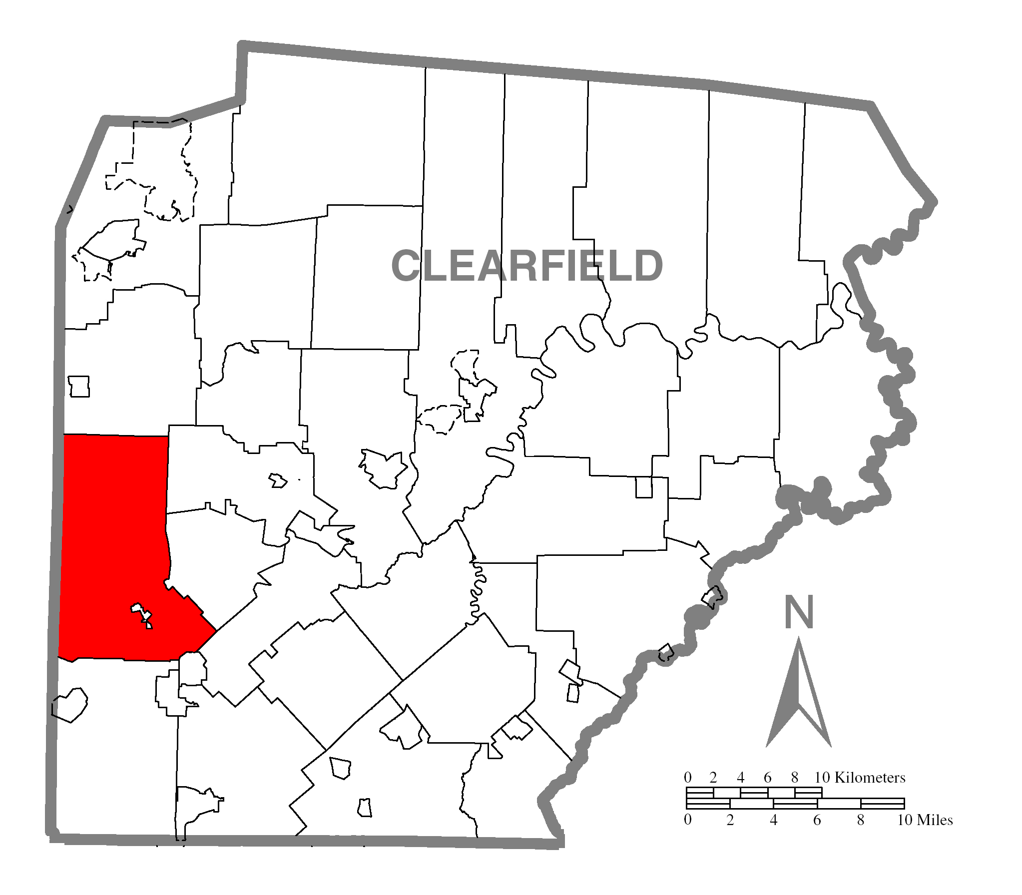 A map of Clearfield County showing Bell Township, Pennsylvania (alternate) highlighted on the map.